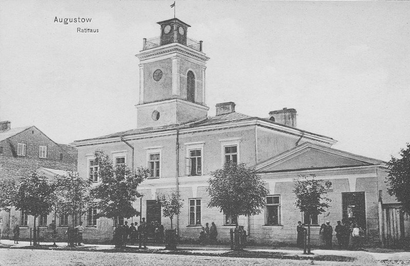 City Hall in Augustów (Poland), built 1836, destroyed 1944, photo taken before 1914.